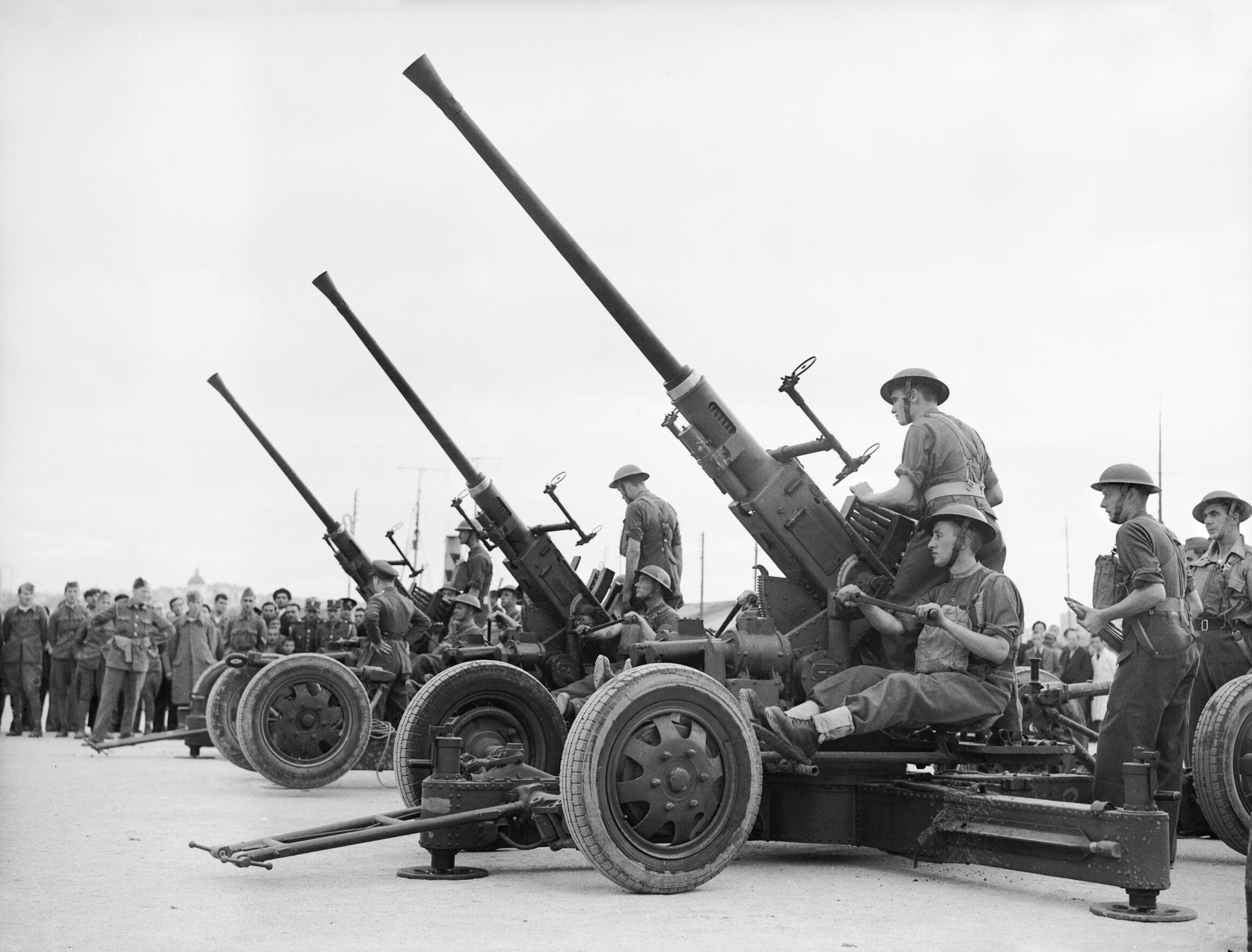 Royal Artillery 40mm Bofors guns being assembled on their arrival in Greece, 25 November 1940. 40mm Bofors guns being assemebled on their arrival in Greece, 25 November 1940.